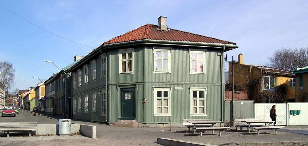 Langgata, Rodeløkka, Oslo, Norway. Rodes plass in the foreground.